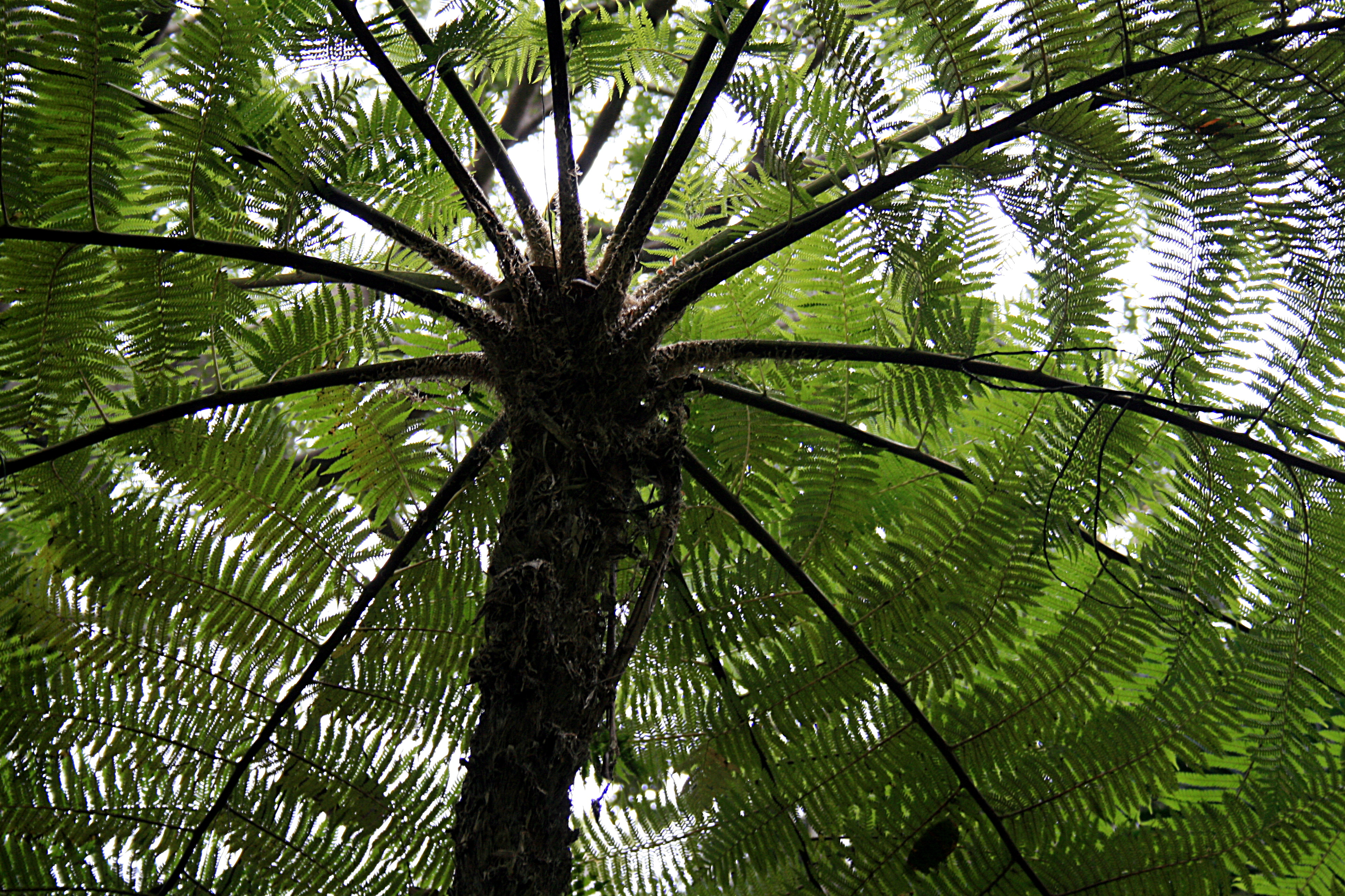 Madeira, Funchal,_Monte_-_Cyathea_cooperi_(Australischer_Baumfarn)